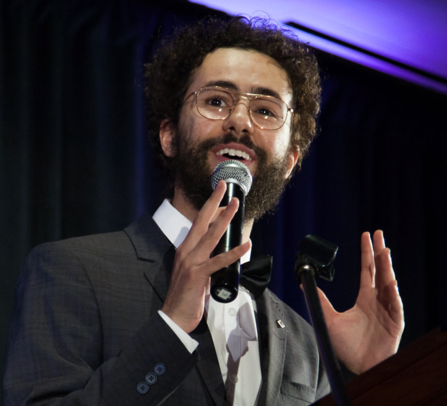 Ramy Youssef publicly speaking at the Muslim Public Affairs Council (MPAC) Media Awards in 2017; the photograph has been cropped for formatting purposes.